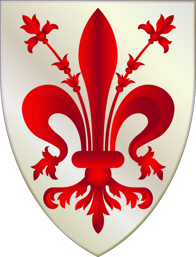 Coat of arms of Florence, Italy